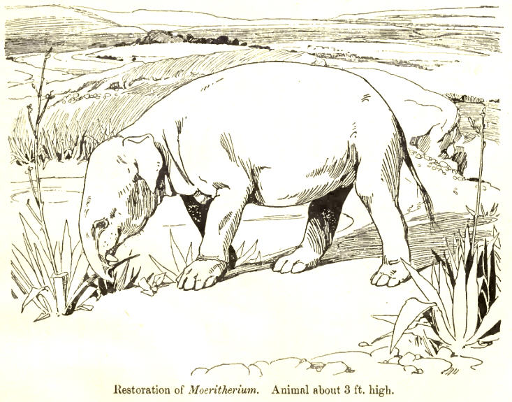 Moeritherium restoration